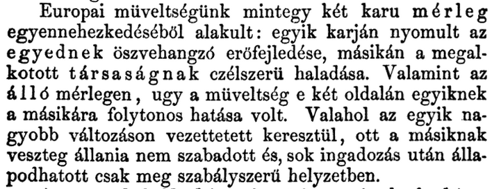 Passage from Lányi's work